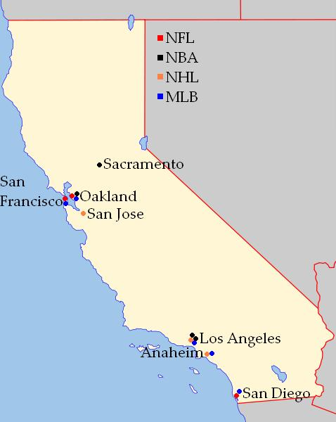 Sport franchises in california.